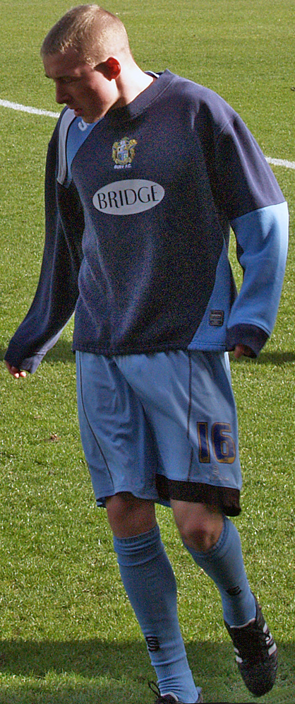 Nicky Adams. Image cropped from original at flickr.